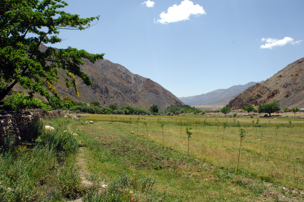 A view of a valley in the Panjshir Province of Afghanistan.